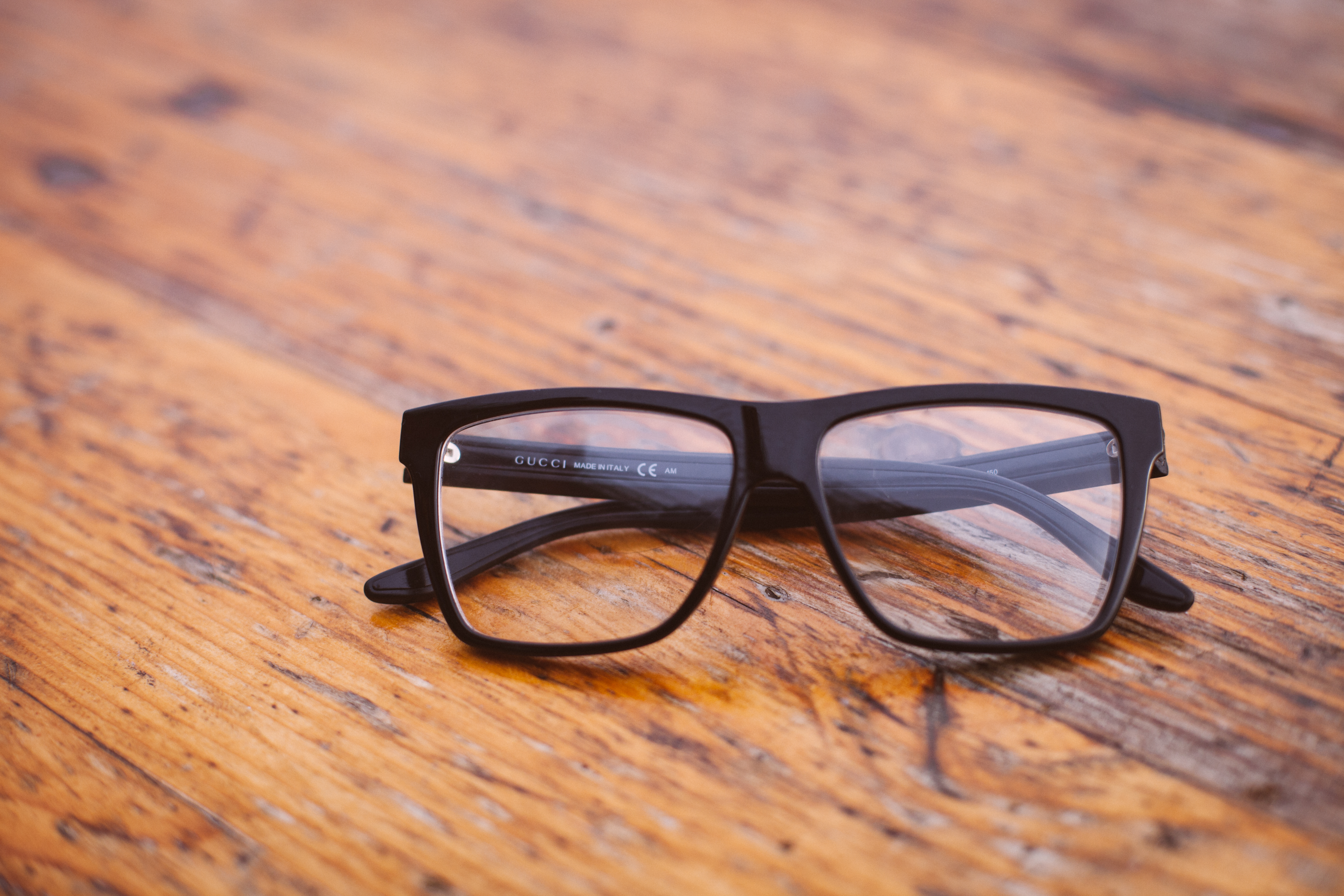 Clem Onojeghuo 2016-10-01